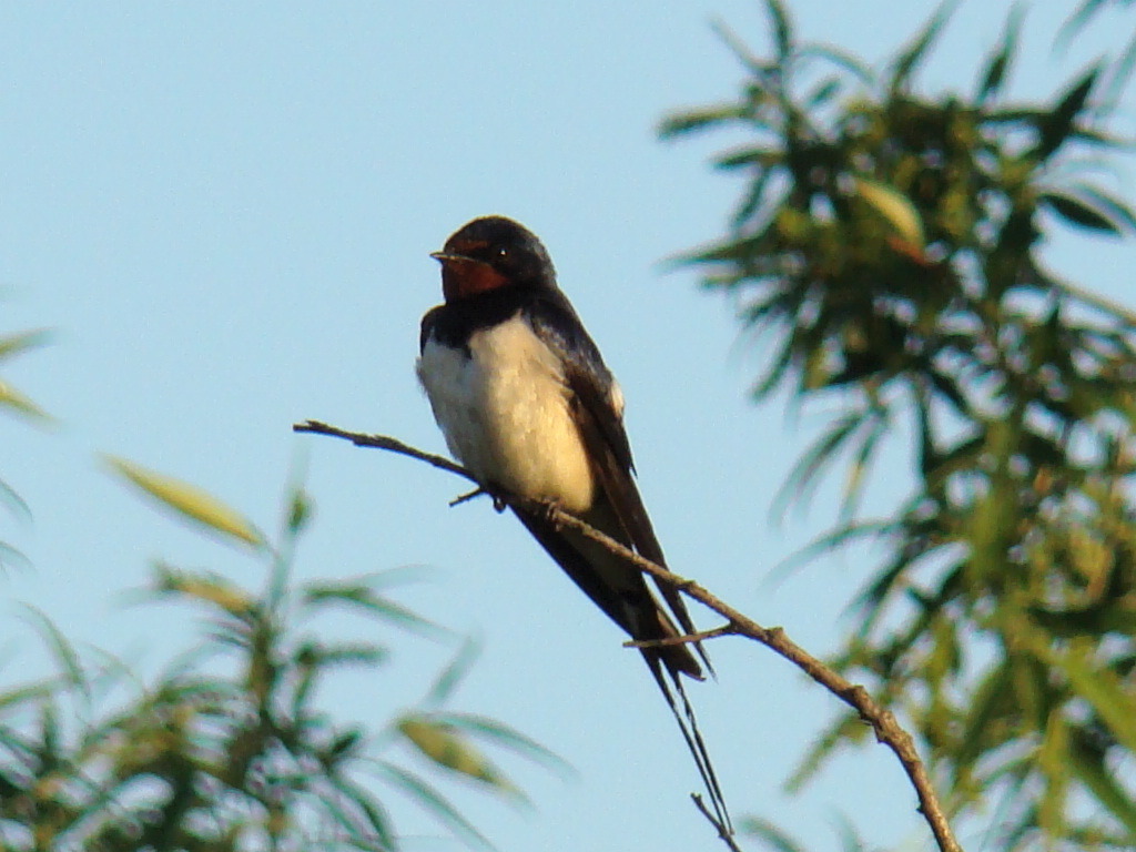 Photo of the Barn Swallow (Hirundo rustica) in in Vingis park, Vilnius, Lithuania.